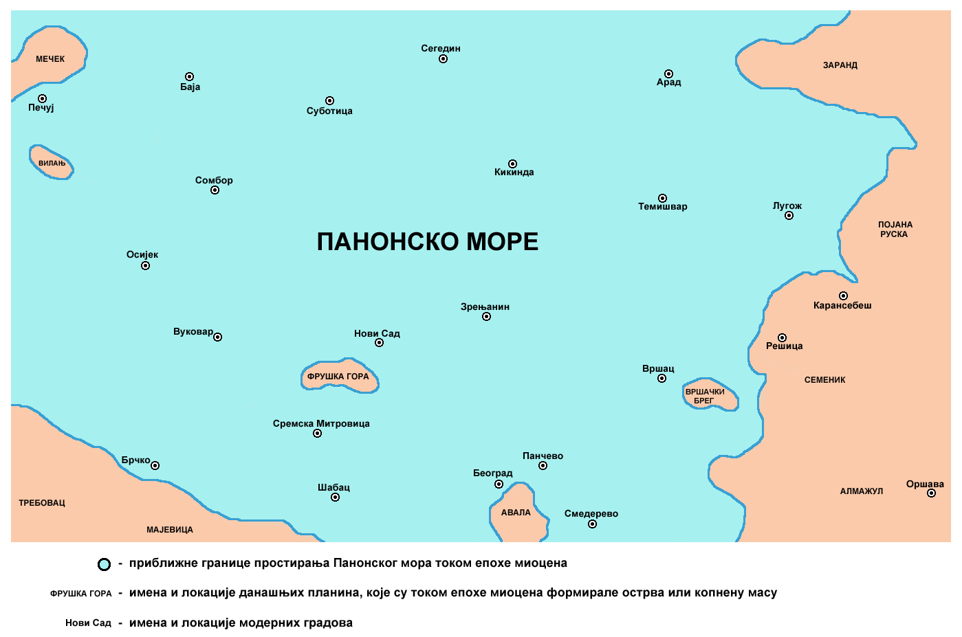 Detailed map of the south-eastern part of Pannonian Sea during the Miocene Epoch.